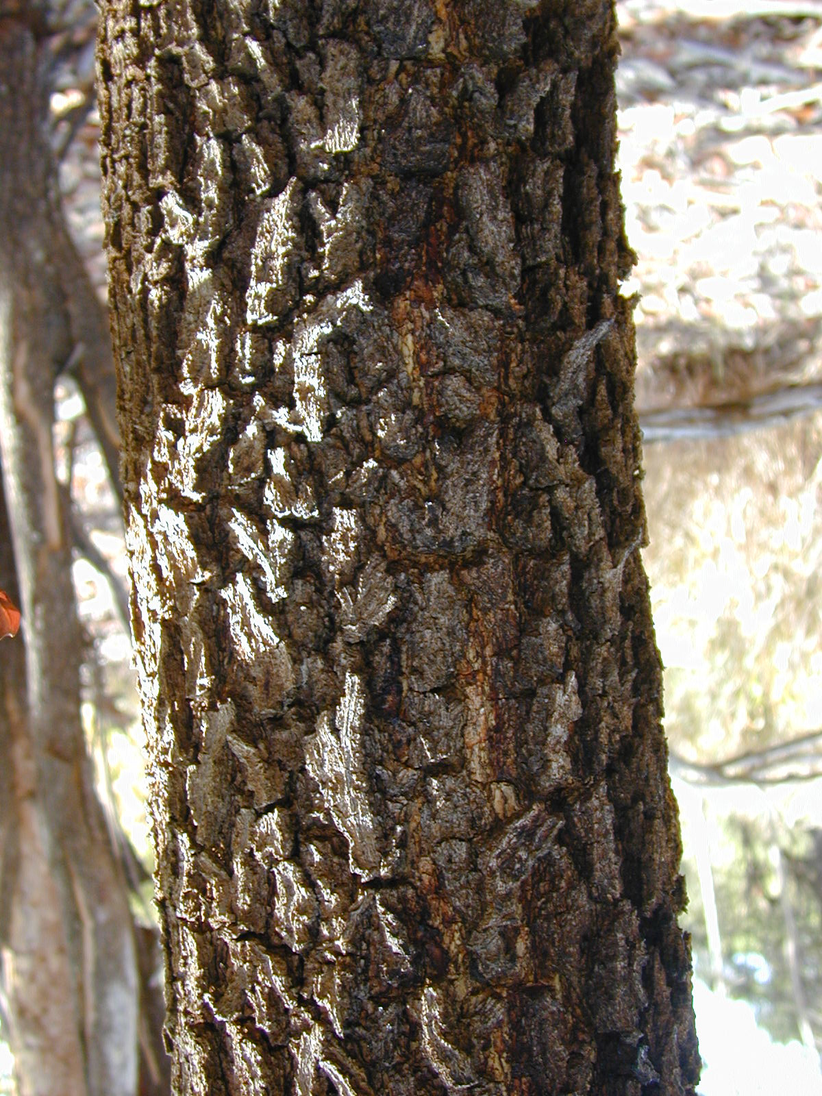 Acacia mangium (bark). Location: Maui, Hamakuapoko